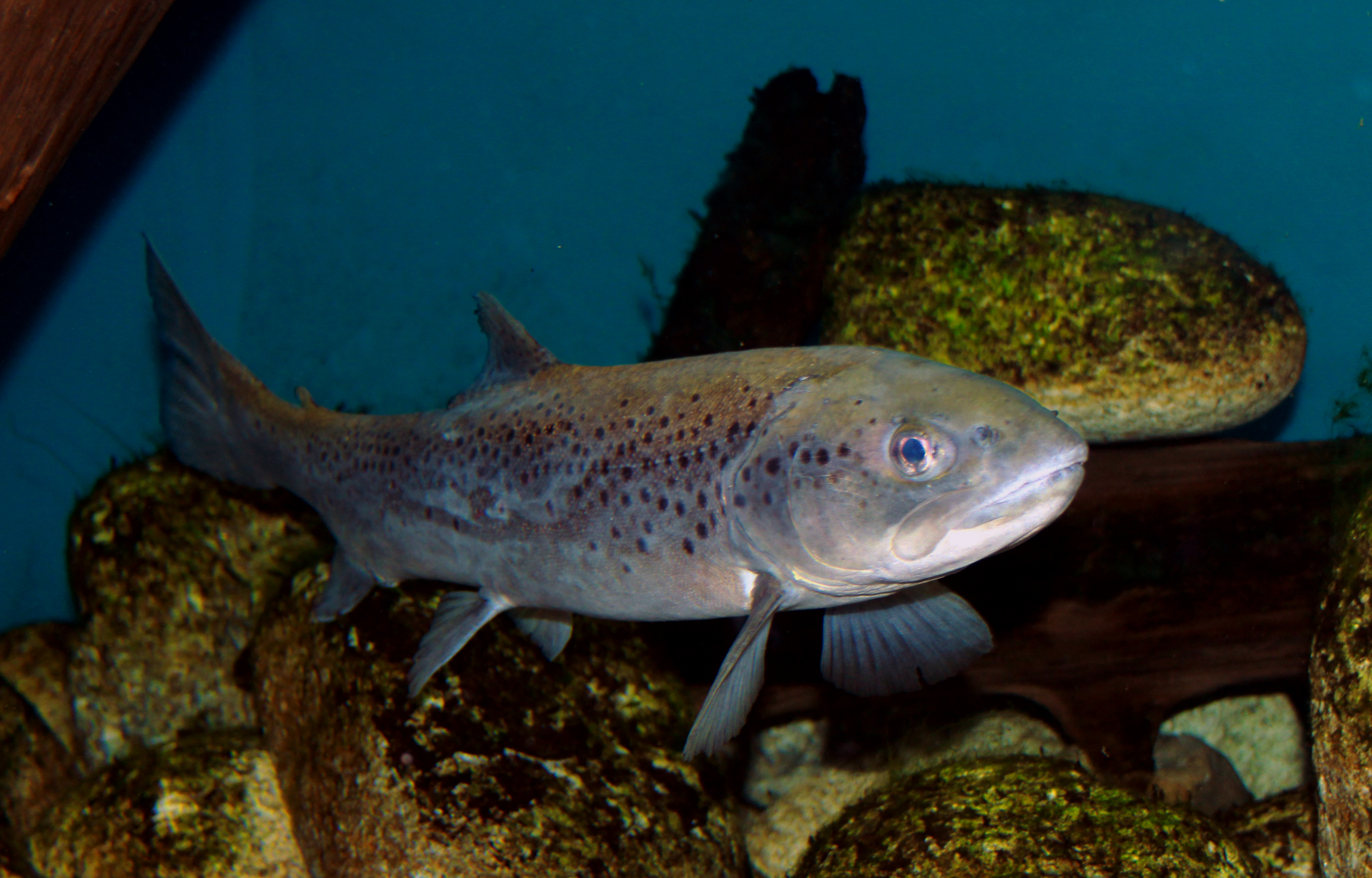 Fish Brown trout on exhibition Subaqueous Vltava, Prague 2011, Czech Republic